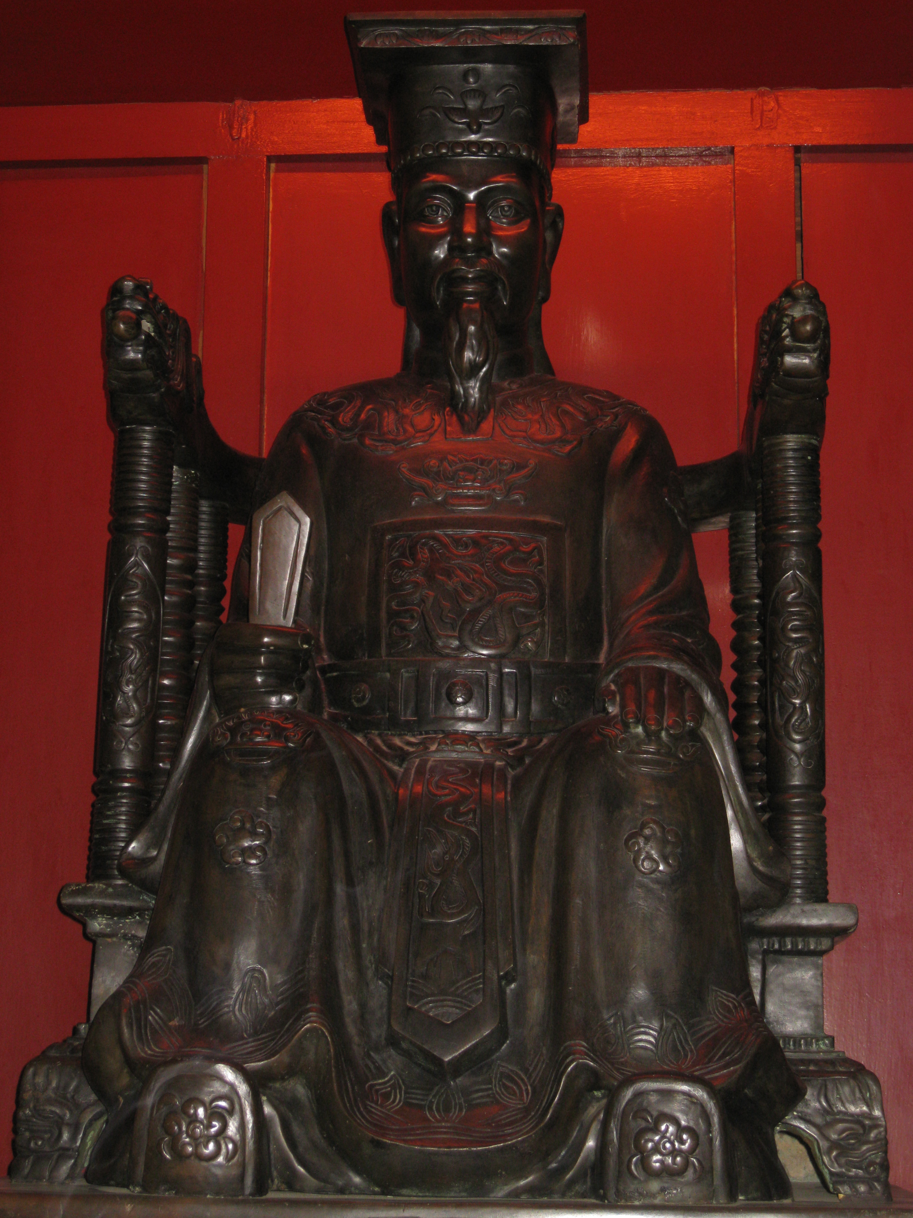 Bronze statue of King Lý Nhân Tông, Temple of Literature, Hanoi.